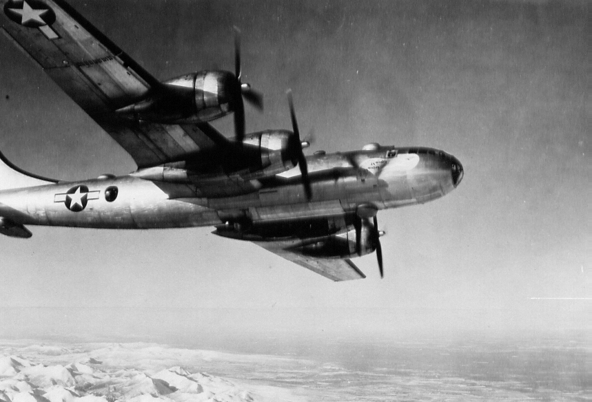 Please see filename